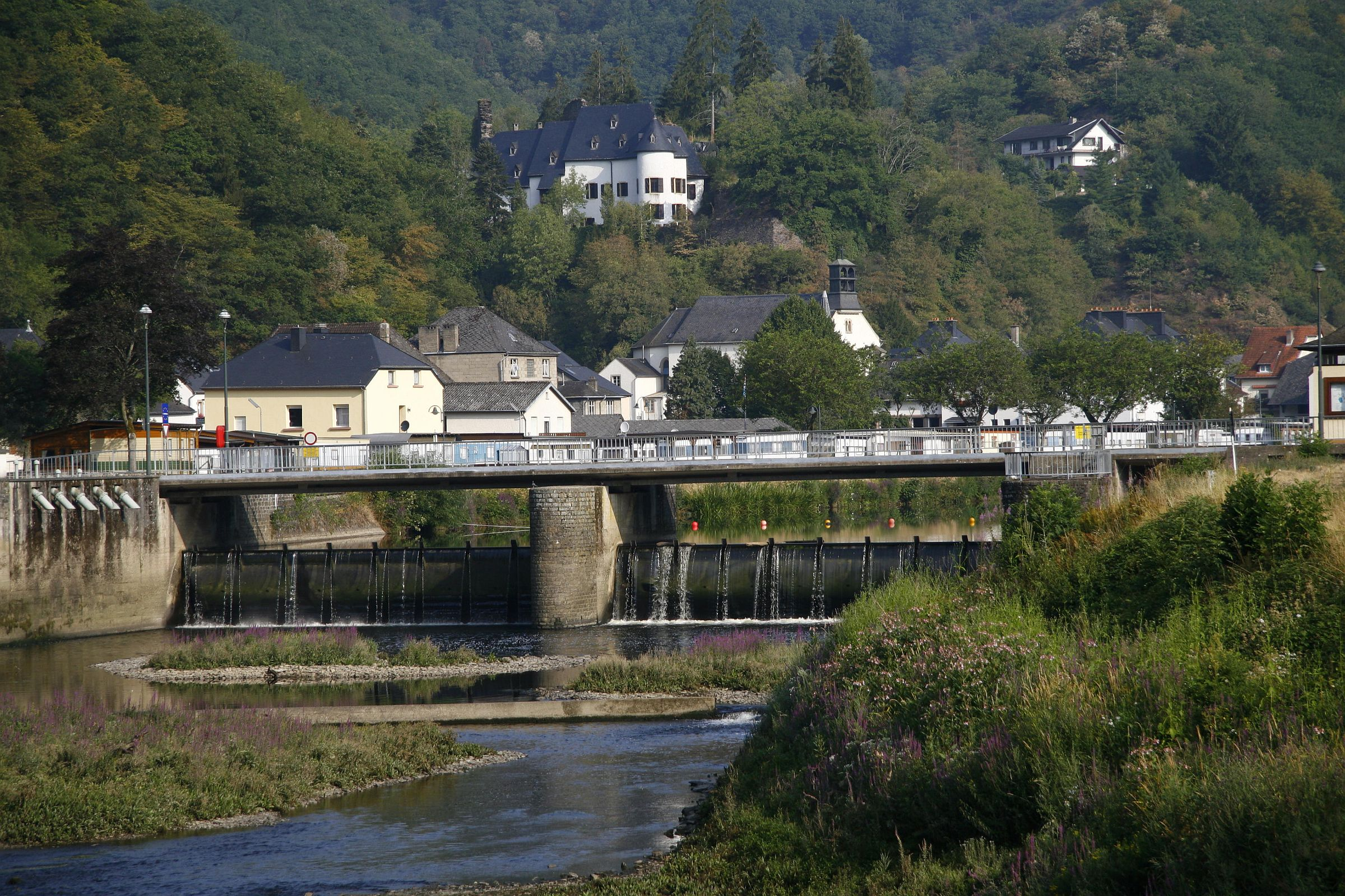 Overview from Keppeshausen (D) on Stolzembourg, Luxembourg.